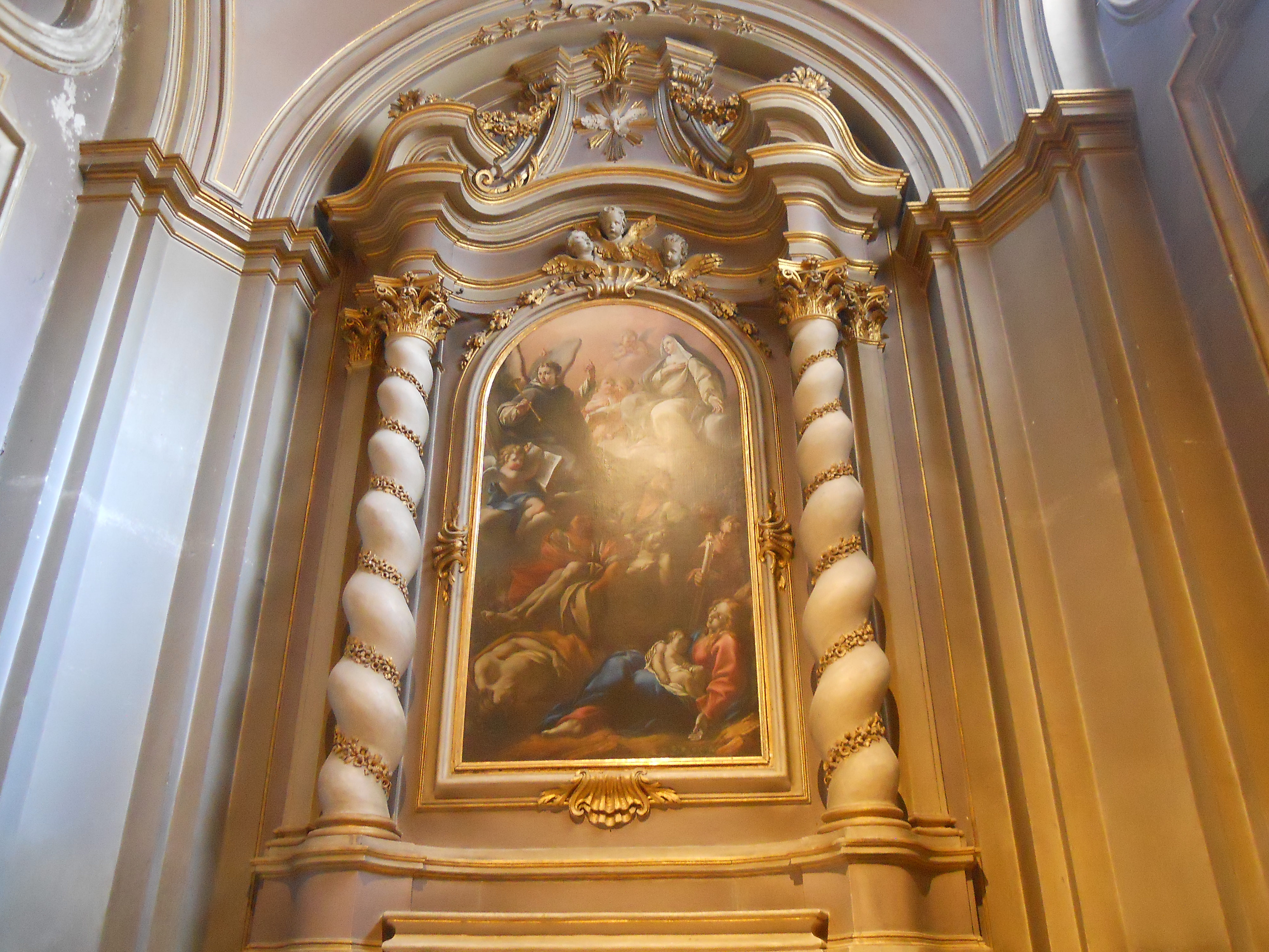 Saint Vincenzo Ferreri and Beata Colomba Chapel - Cathedral of Rieti (Lazio, Italy)